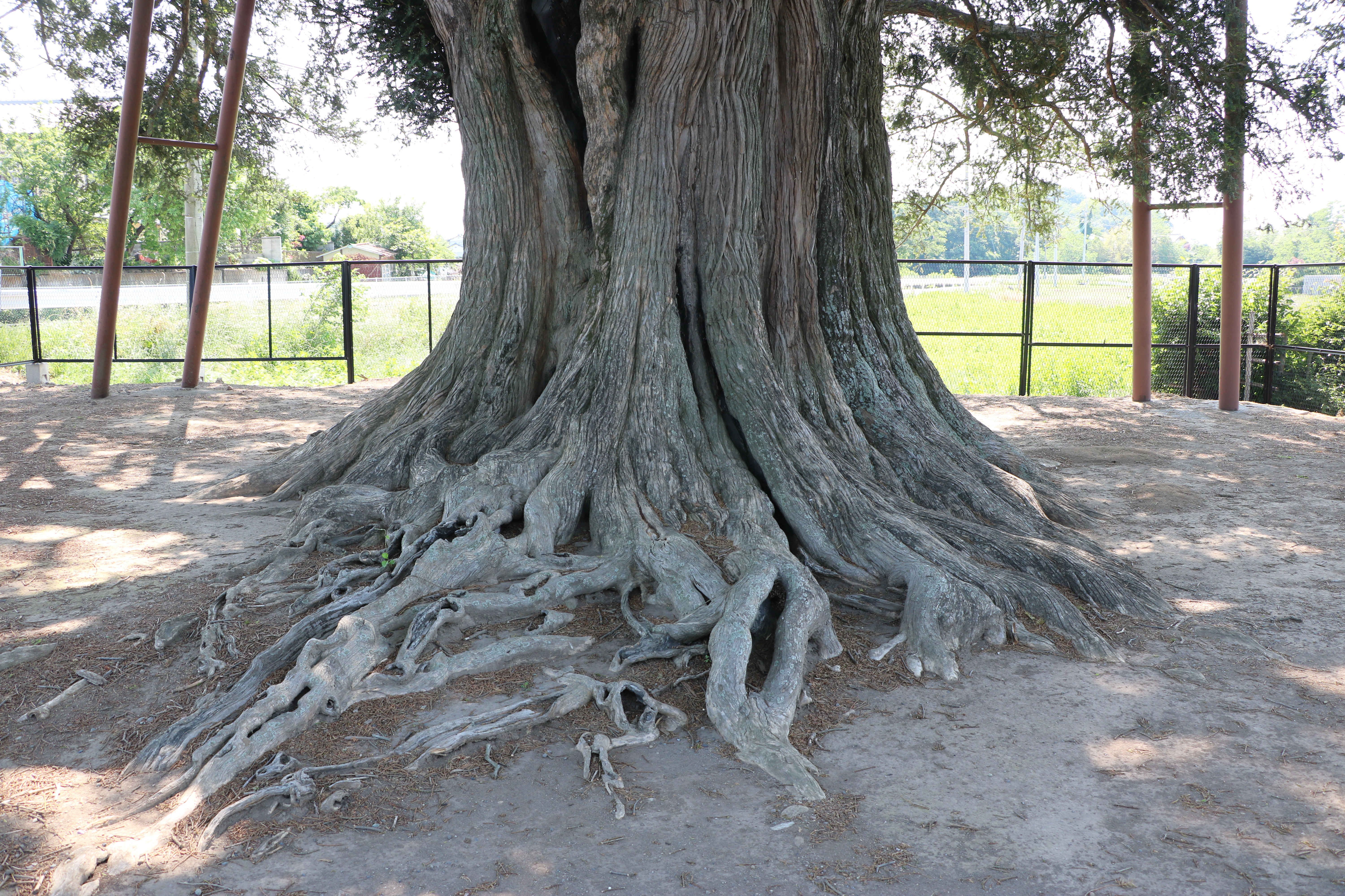 Yokomuro no O-Kaya